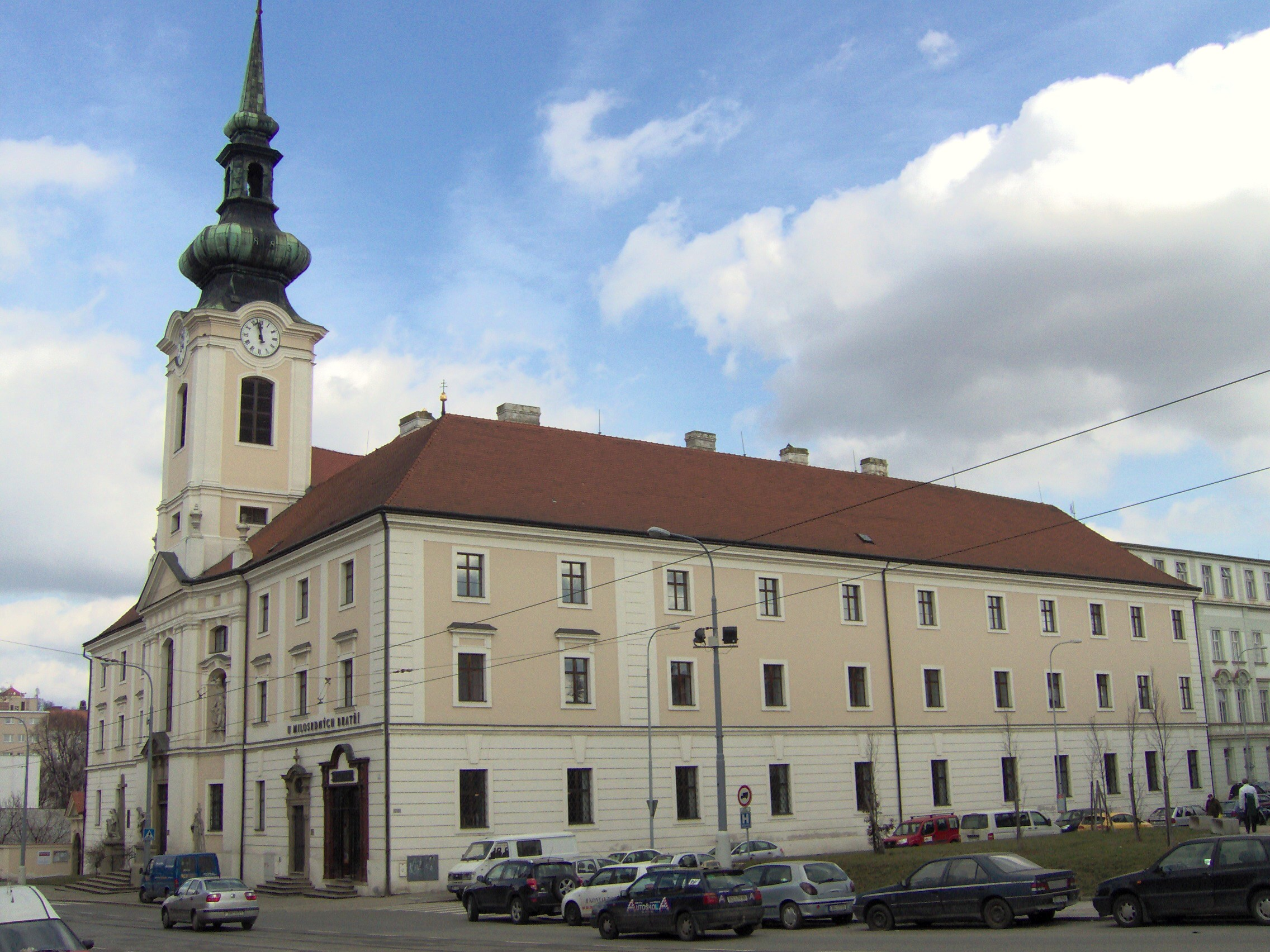 Monastery of Brothers Hospitallers of St. John of God with St. Leopold church, Brno, Czech Republic